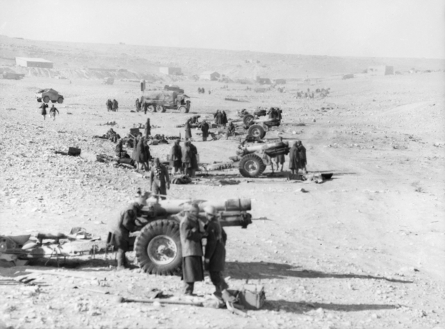 AWM caption : "TOBRUK - `A' TROOP OF BRITISH SIX INCH 26 CWT BL HOWITZERS IN ACTION AT TOBRUK."